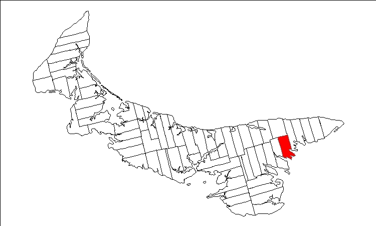 Public domain map of Prince Edward Island created by User:Plasma east with data courtesy of Geogratis, modified to show townships. Released under GFDL (self).